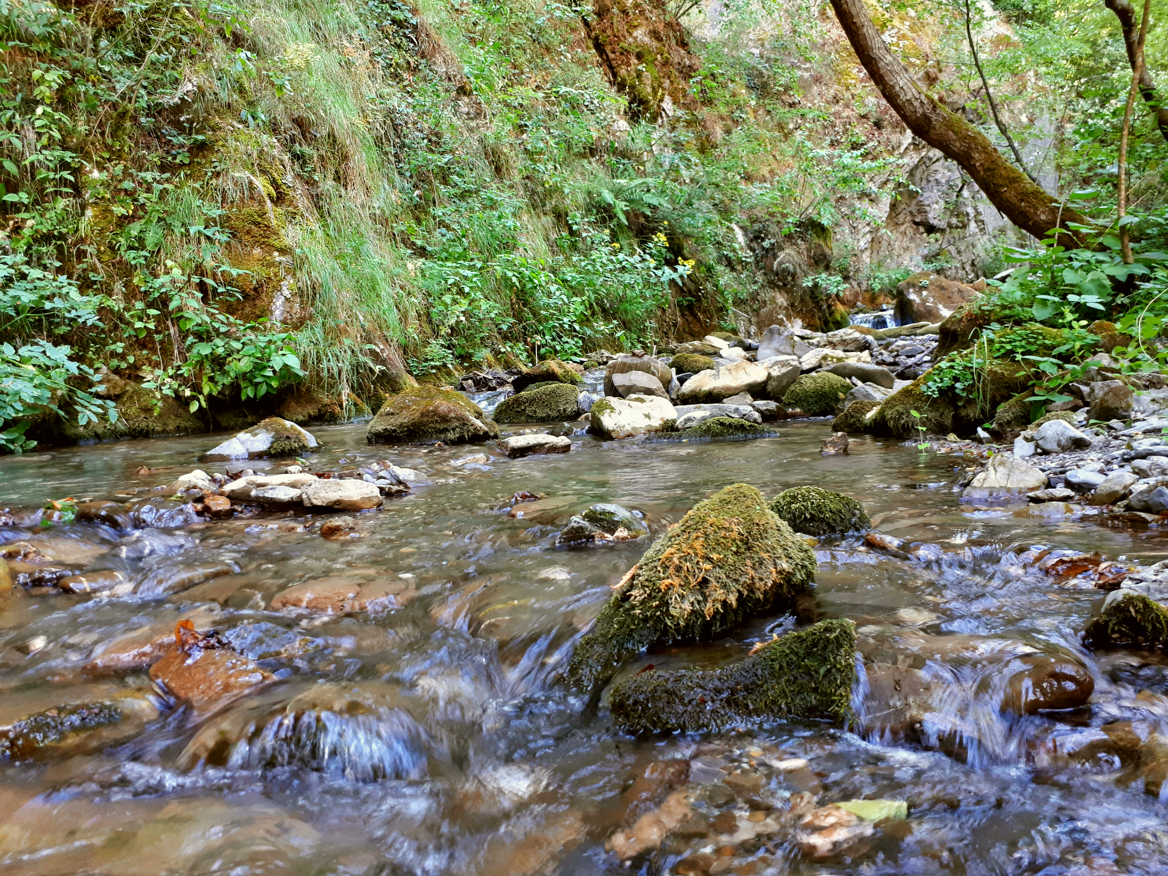 Rostuše River